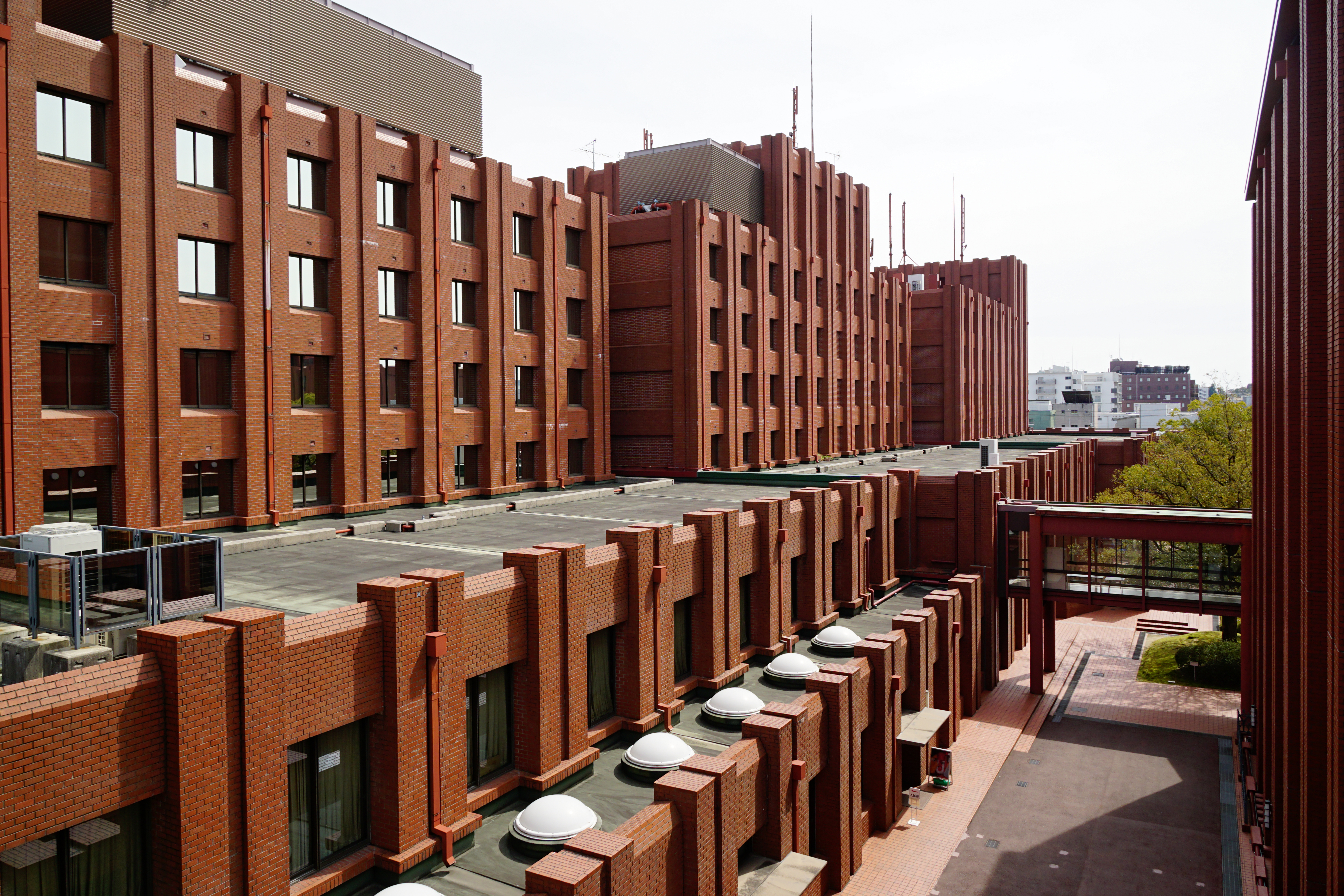 Ryukoku University Fukakusa Campus in Kyoto, Kyoto prefecture, Japan